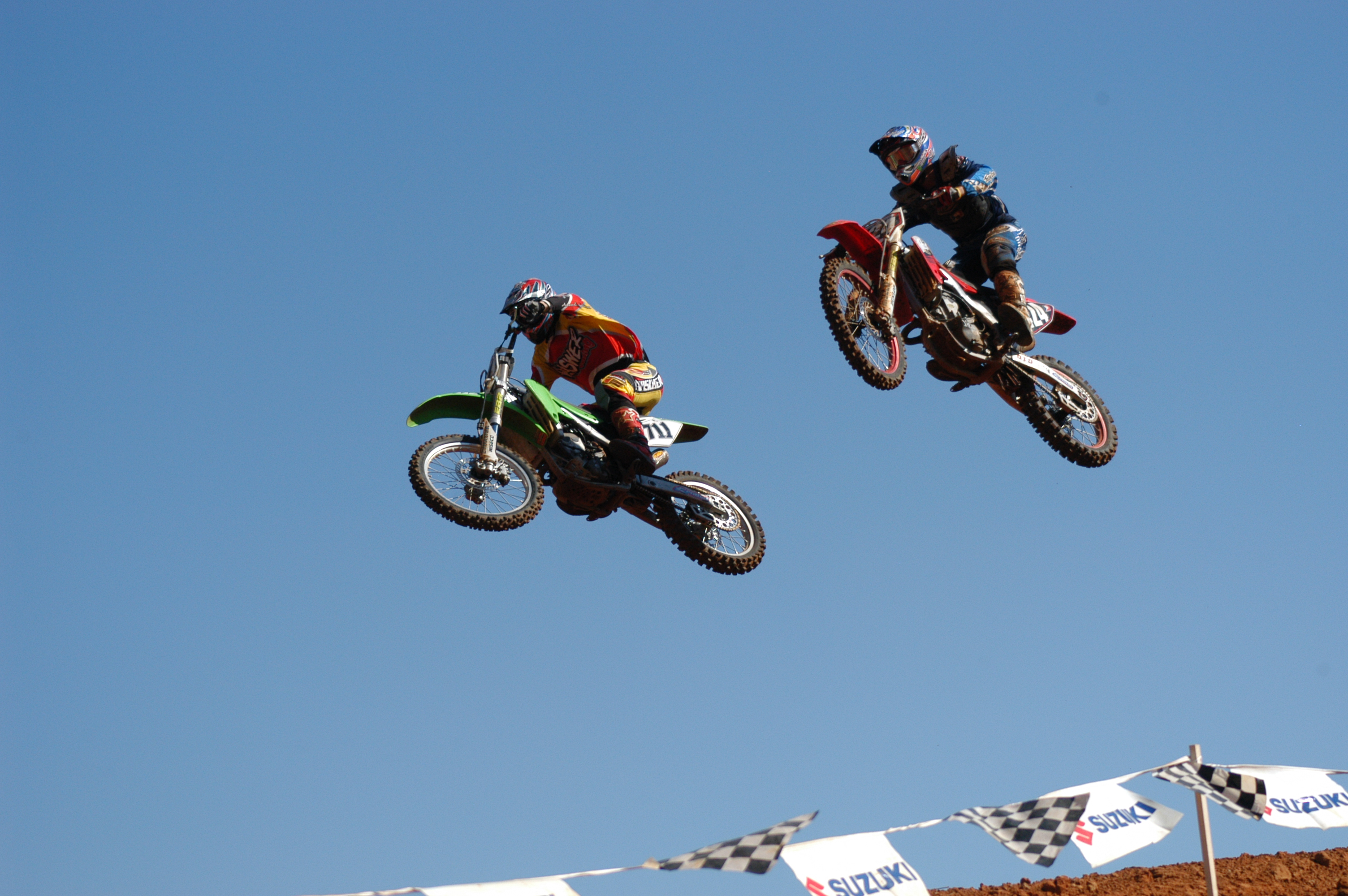 Jess Brin